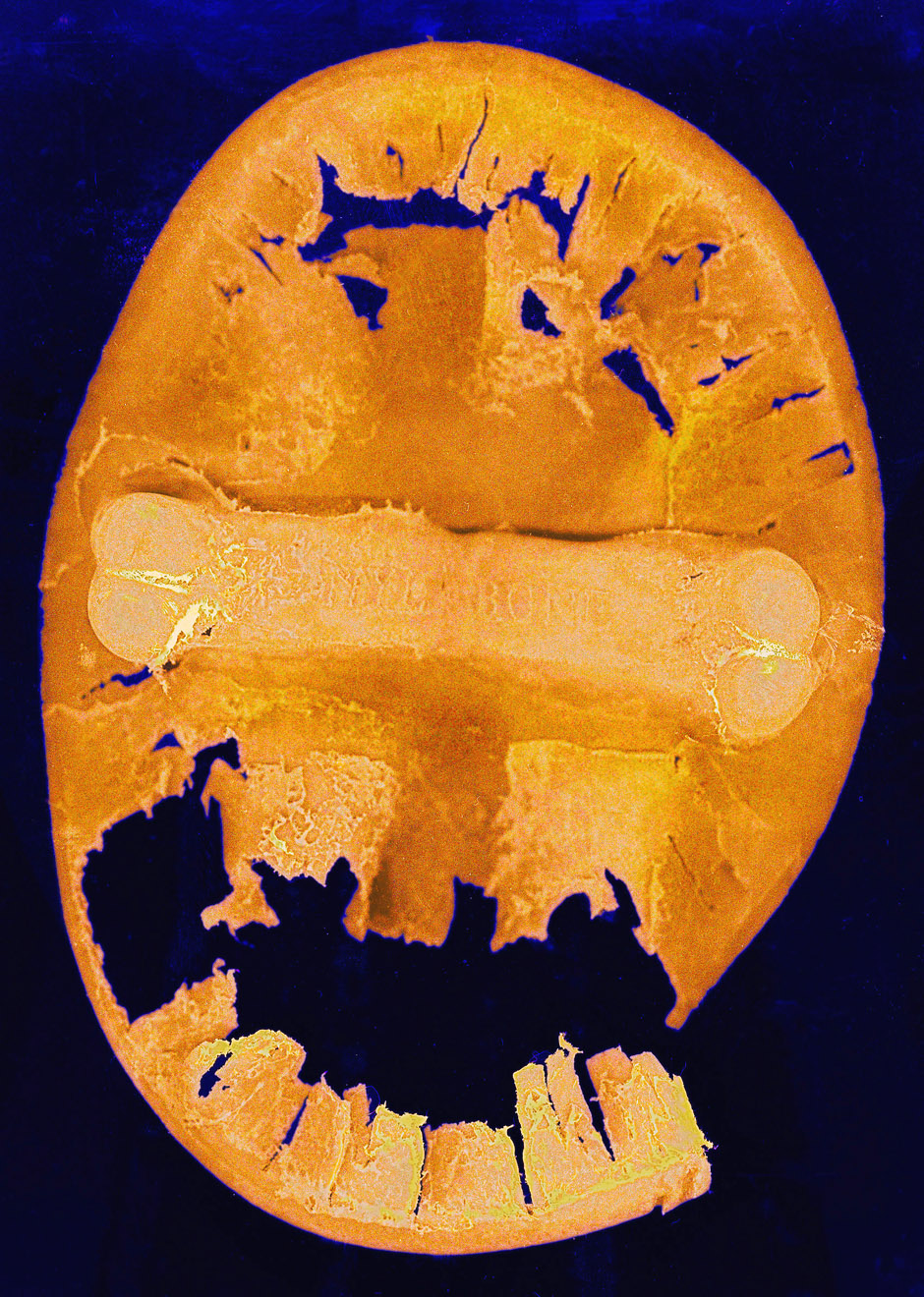 Frisbee of Tui the dog